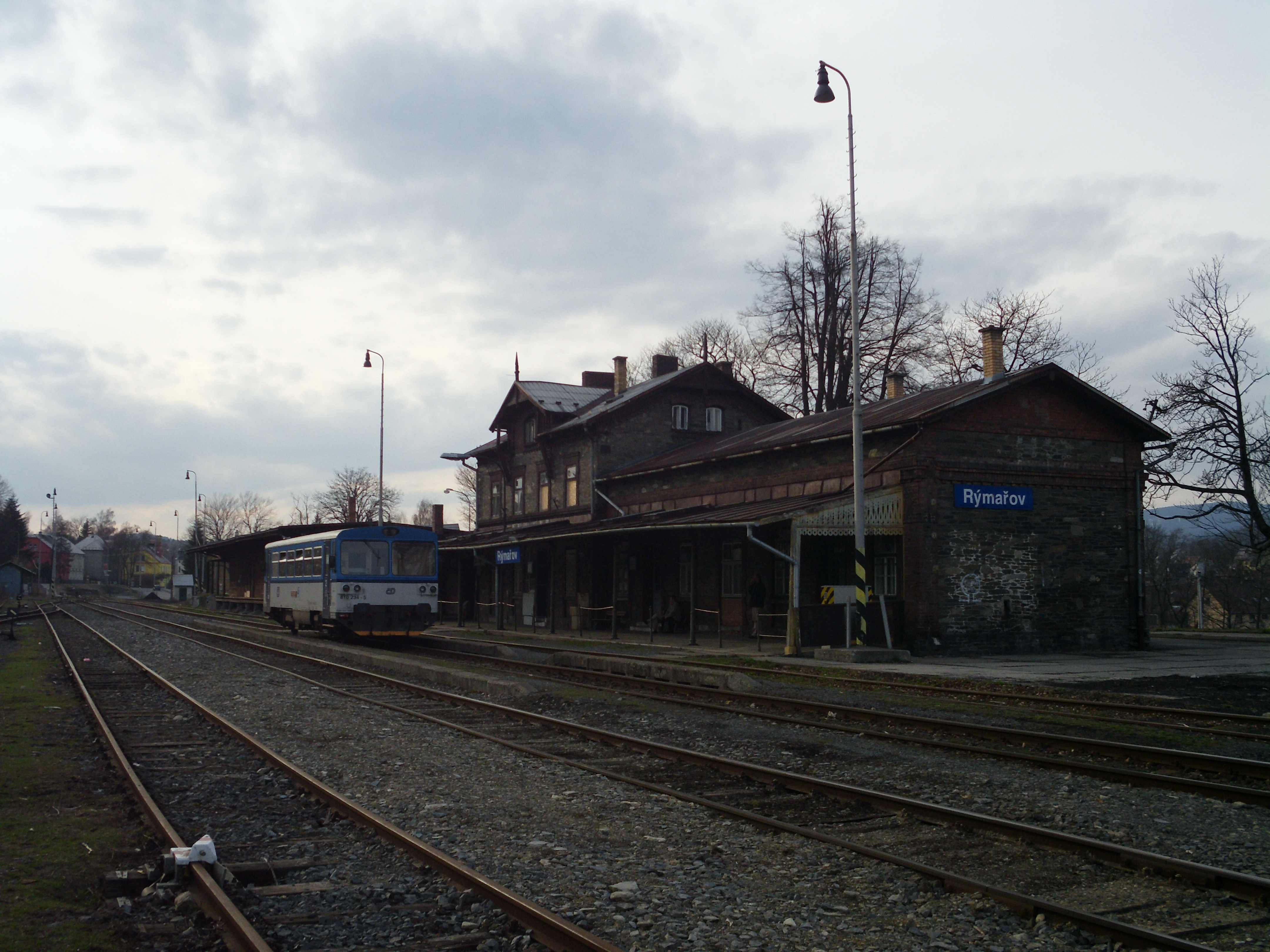 Train station in Rýmařov, Czech Republic